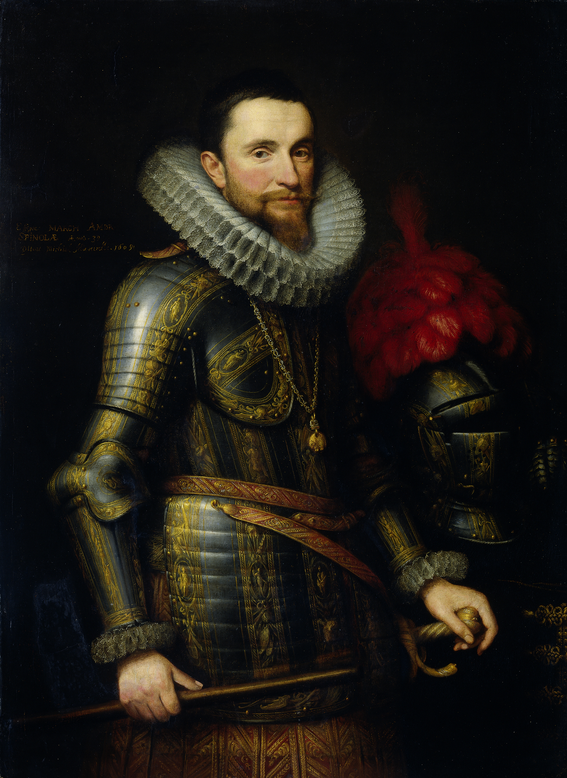 Ambrogio Spinola (1569-1630), Commander of the Spanish Troops in the Southern Netherlands